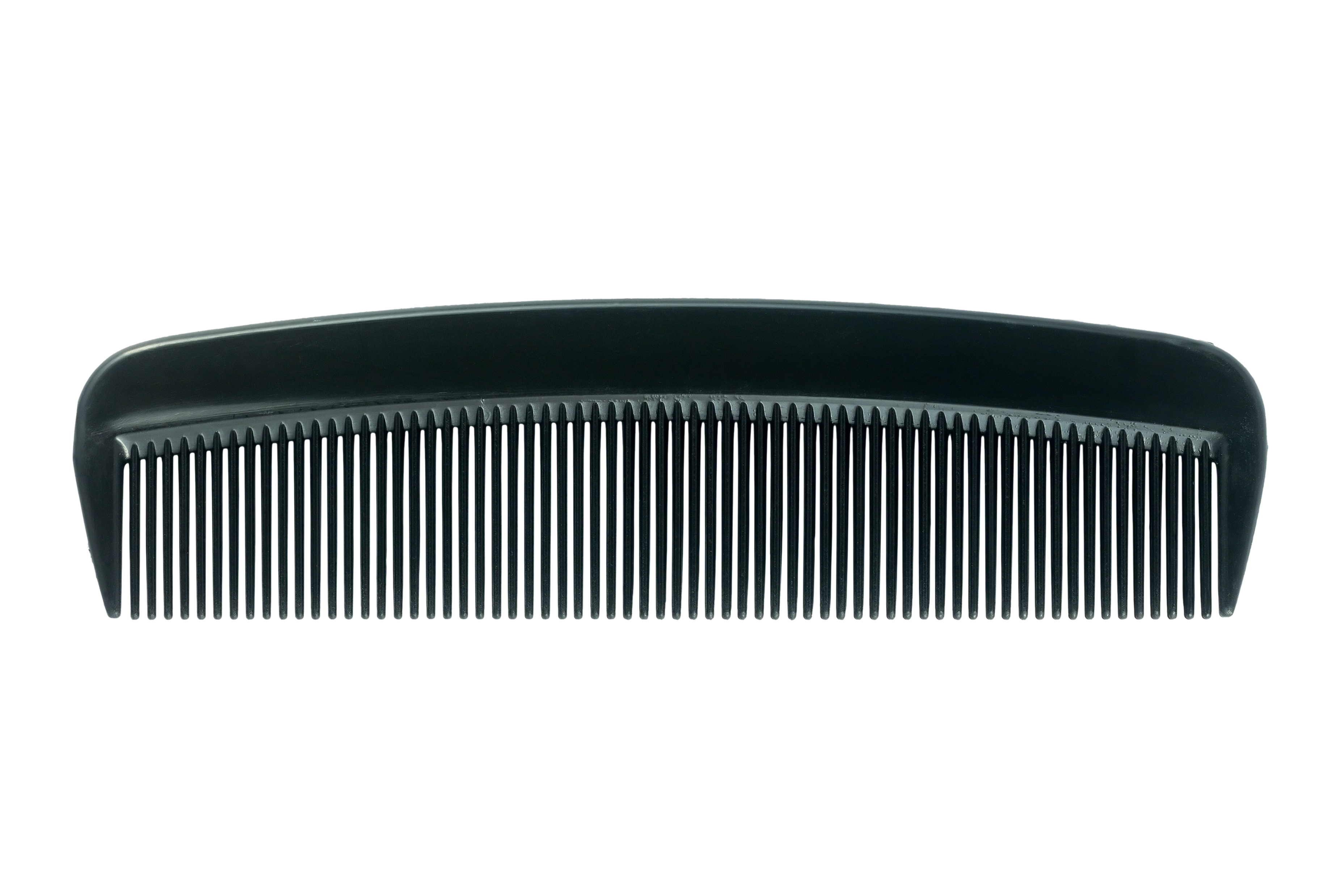 Plastic comb, 2015-06-07